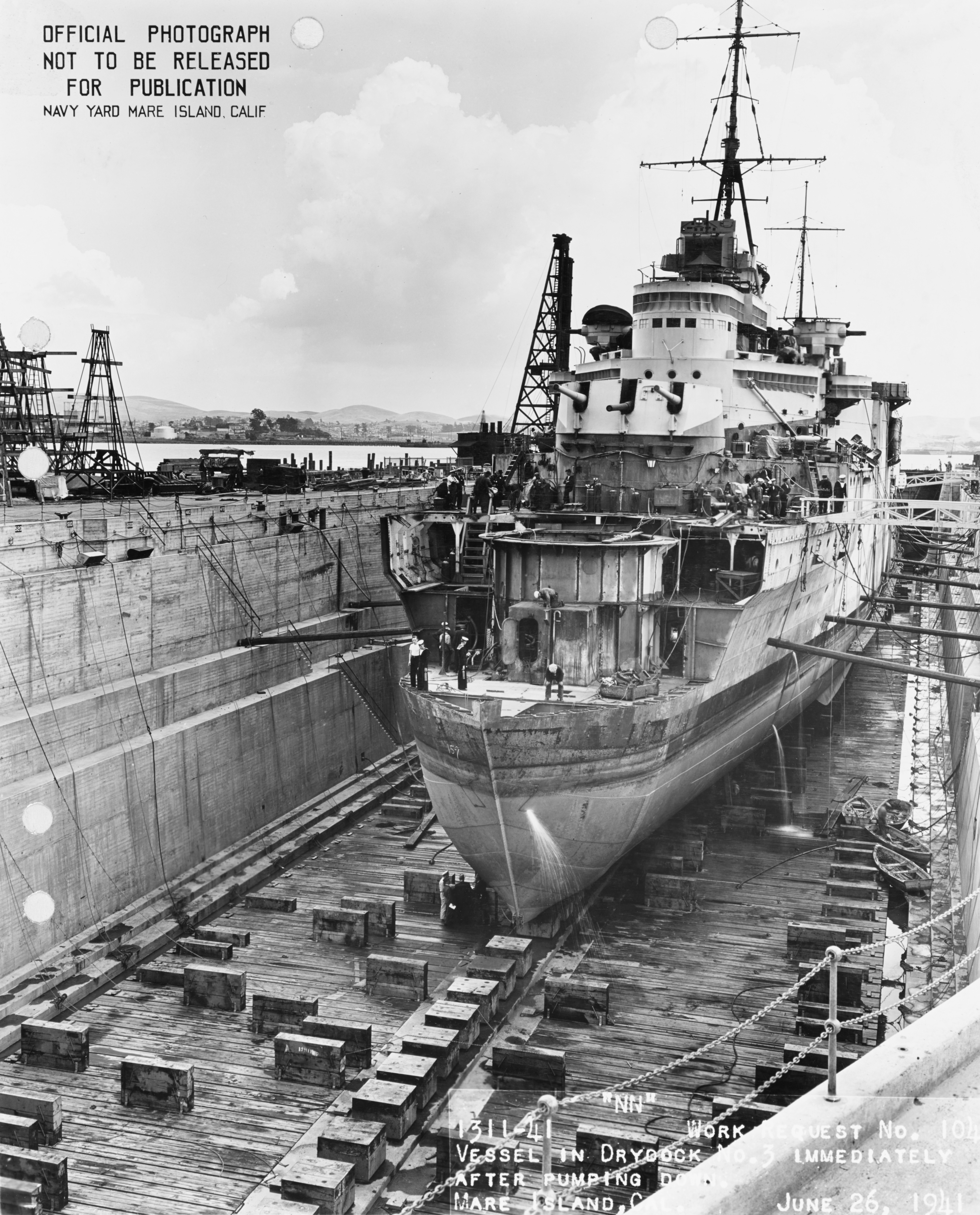 The Royal Navy light cruiser HMS Liverpool (C11) in dry dock at the Mare Island Naval Shipyard, California (USA), on 26 June 1941, for repair of damage received in the Mediterranean Sea the pervious October. The false bow had been fitted at Alexandria, Egypt, shortly after the cruiser was torpedoed.